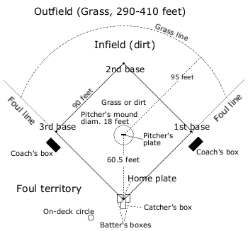 Baseball field diagram.